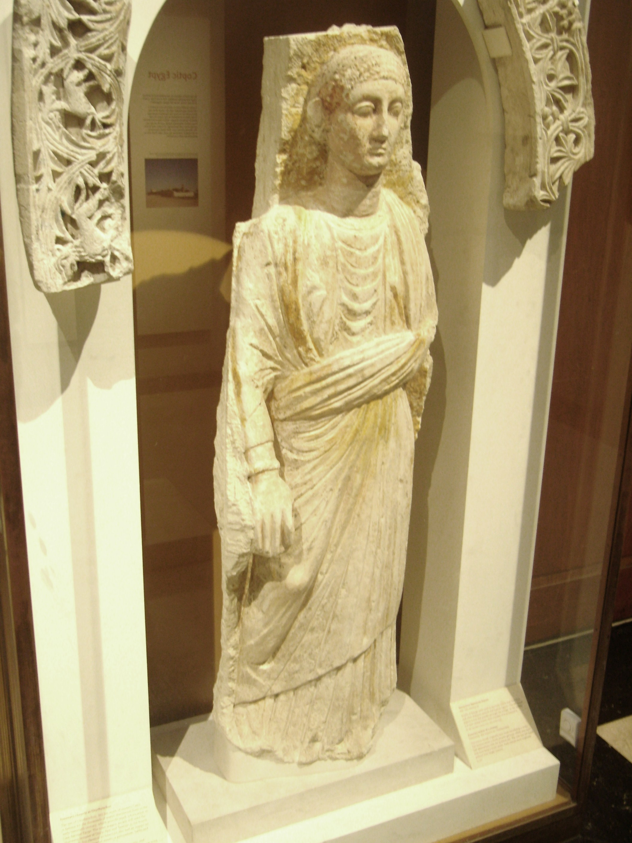 Funerary sculpture found at Oxyrhynchus; about 400 century AB